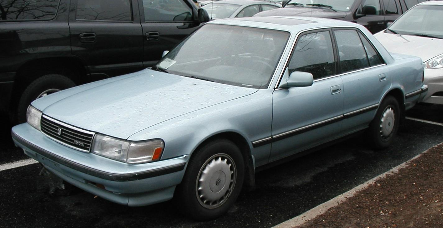 1989-1990 Toyota Cressida photographed in USA.